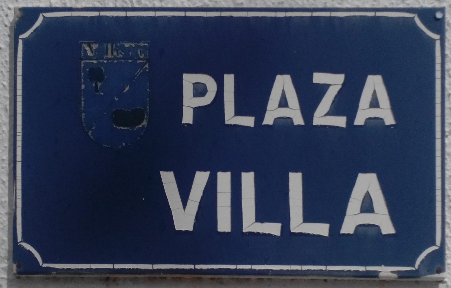 Street sign of Plaza de la Villa in Vellisca (Spain).